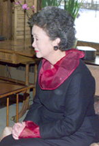 Adrienne Clarkson, former Governor-General of Canada